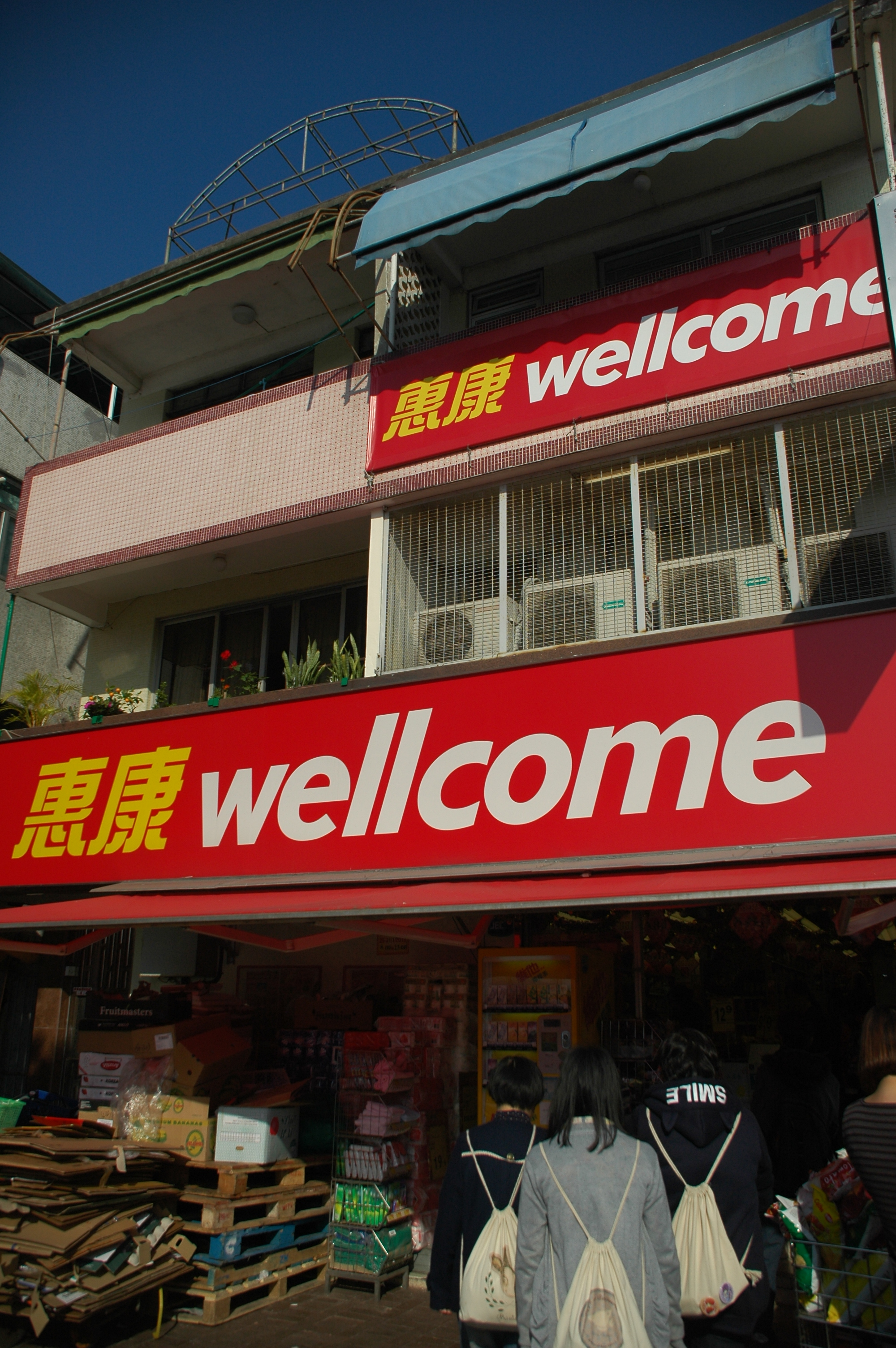 Wellcome, Cheung Chau, Hong Kong.